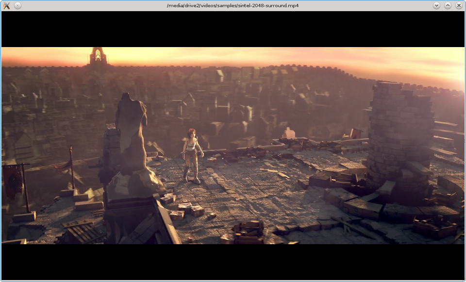 Screenshot of the movie Sintel being played using the avplay program from the Libav project.